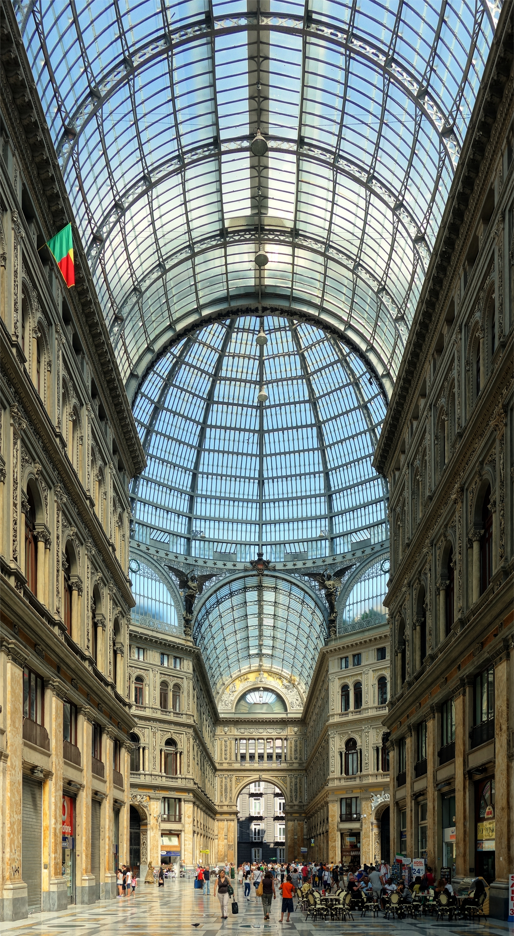 Galleria Umberto I in Naples, Italy.